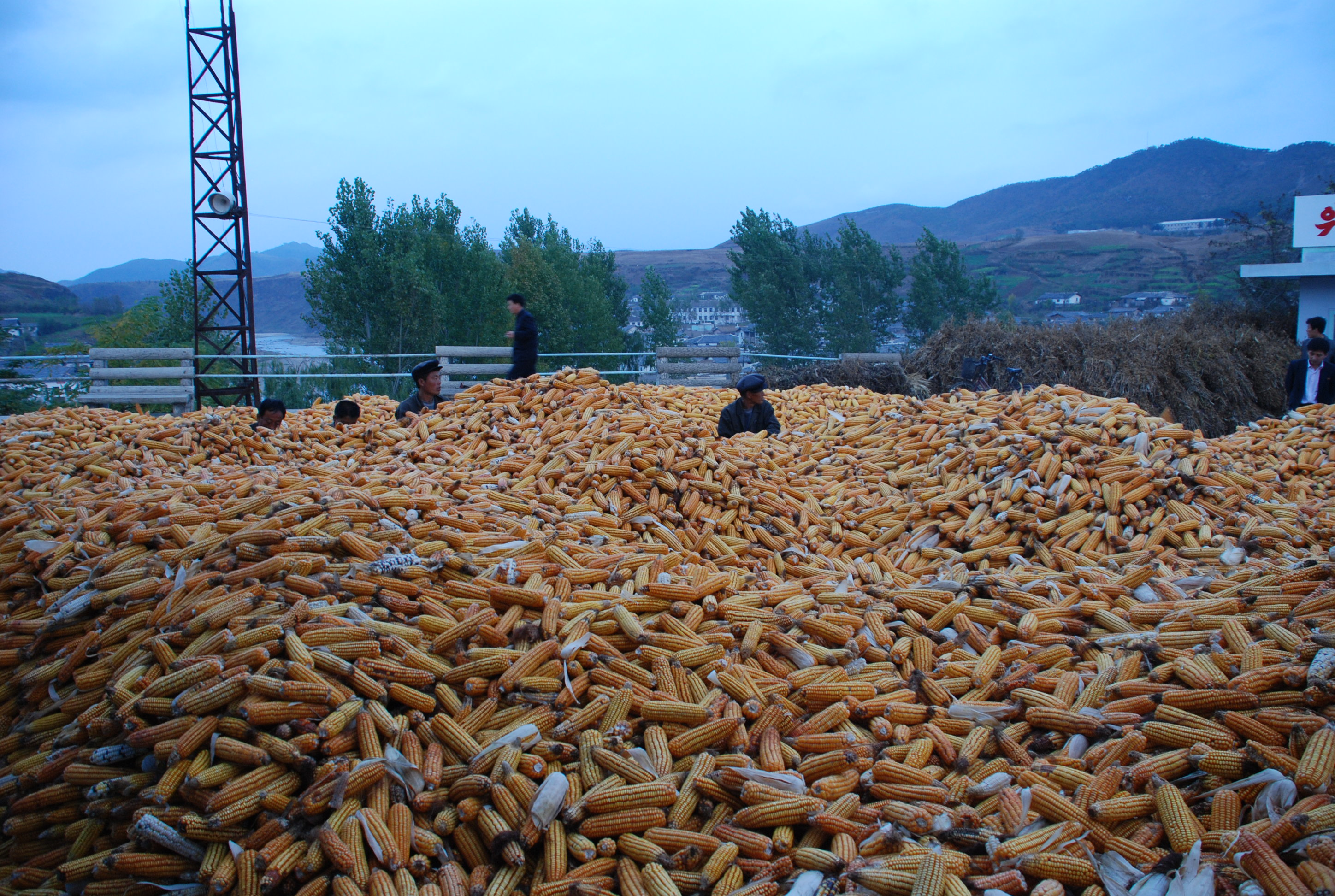 In a town in North Hwanghae province, farmers have brought in the maize crop. However, due to a lack of proper storage facilities, the crop is lying out in the open which could result in significant losses.